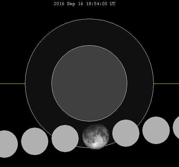 September 2016 lunar eclipse chart of moon's path through the earth's shadow. thumb